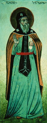 The Georgian monk St. Arsen of Iqalto. A 18th-century miniature